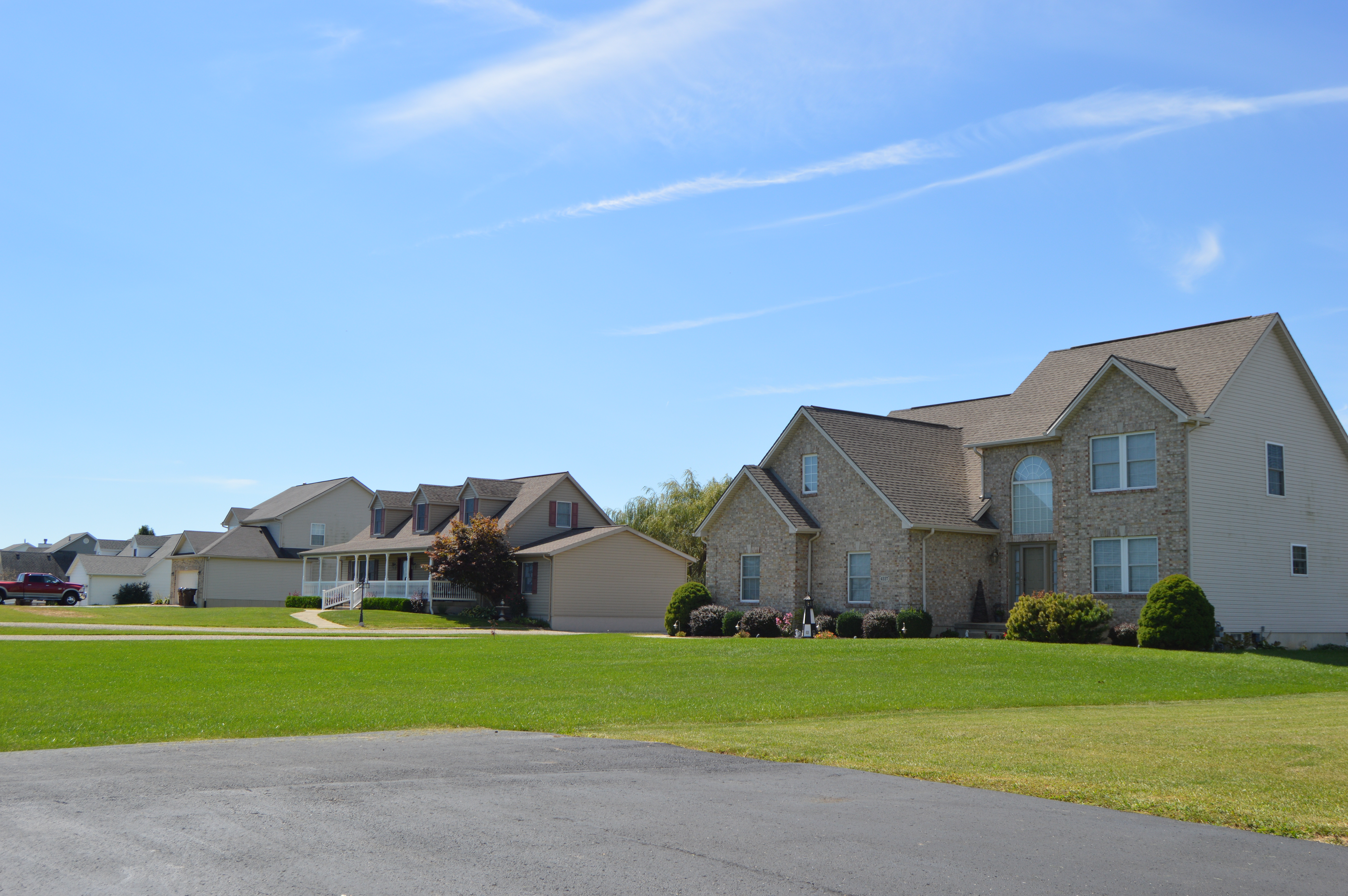 Houses on Paint Creek Road on the eastern edge of the Lake Lakengren development in Gasper Township, Preble County, Ohio, United States. The two nearer houses were built in 2003, one year after the third house.